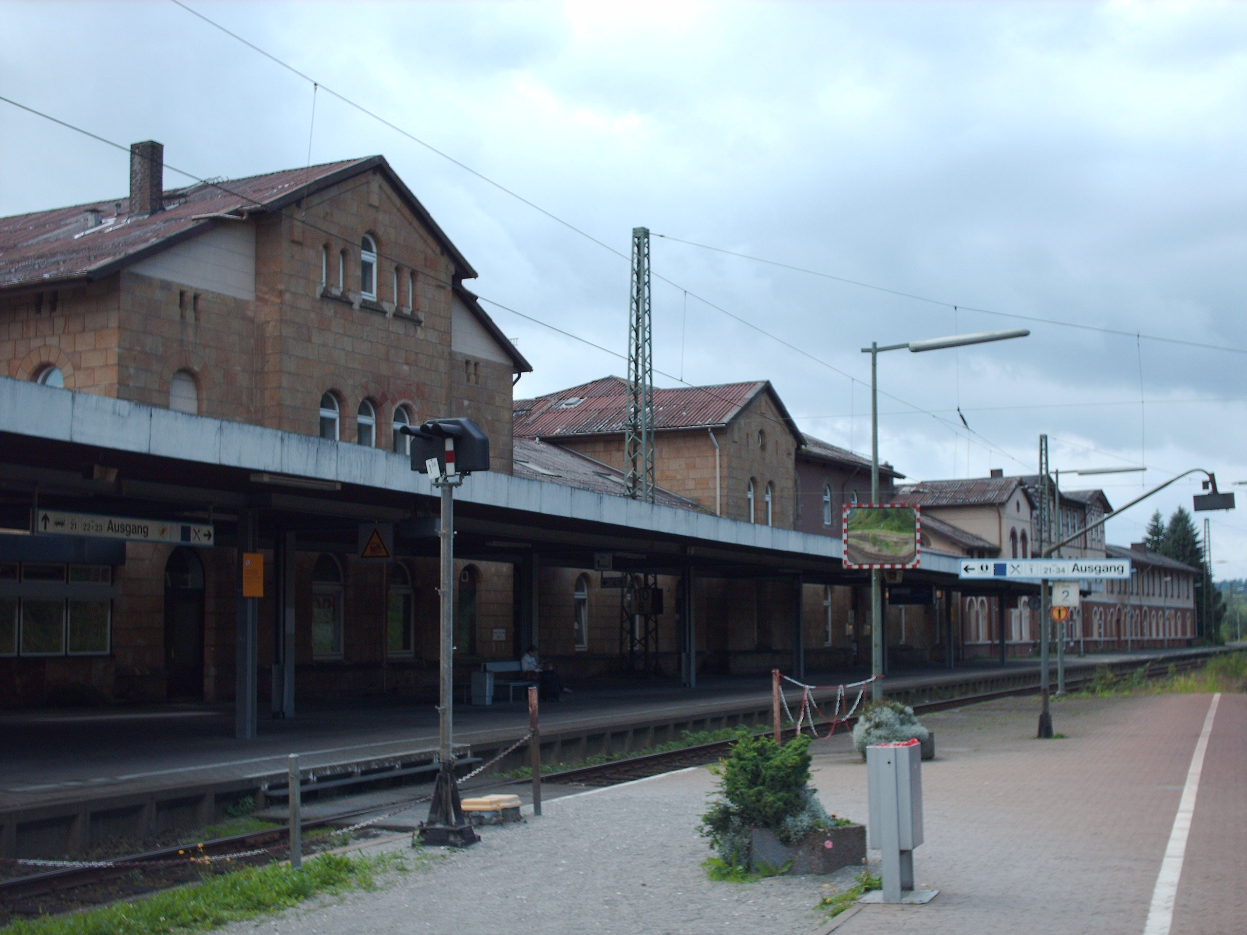 Altenbeken station, Altenbeken, Germany check usage